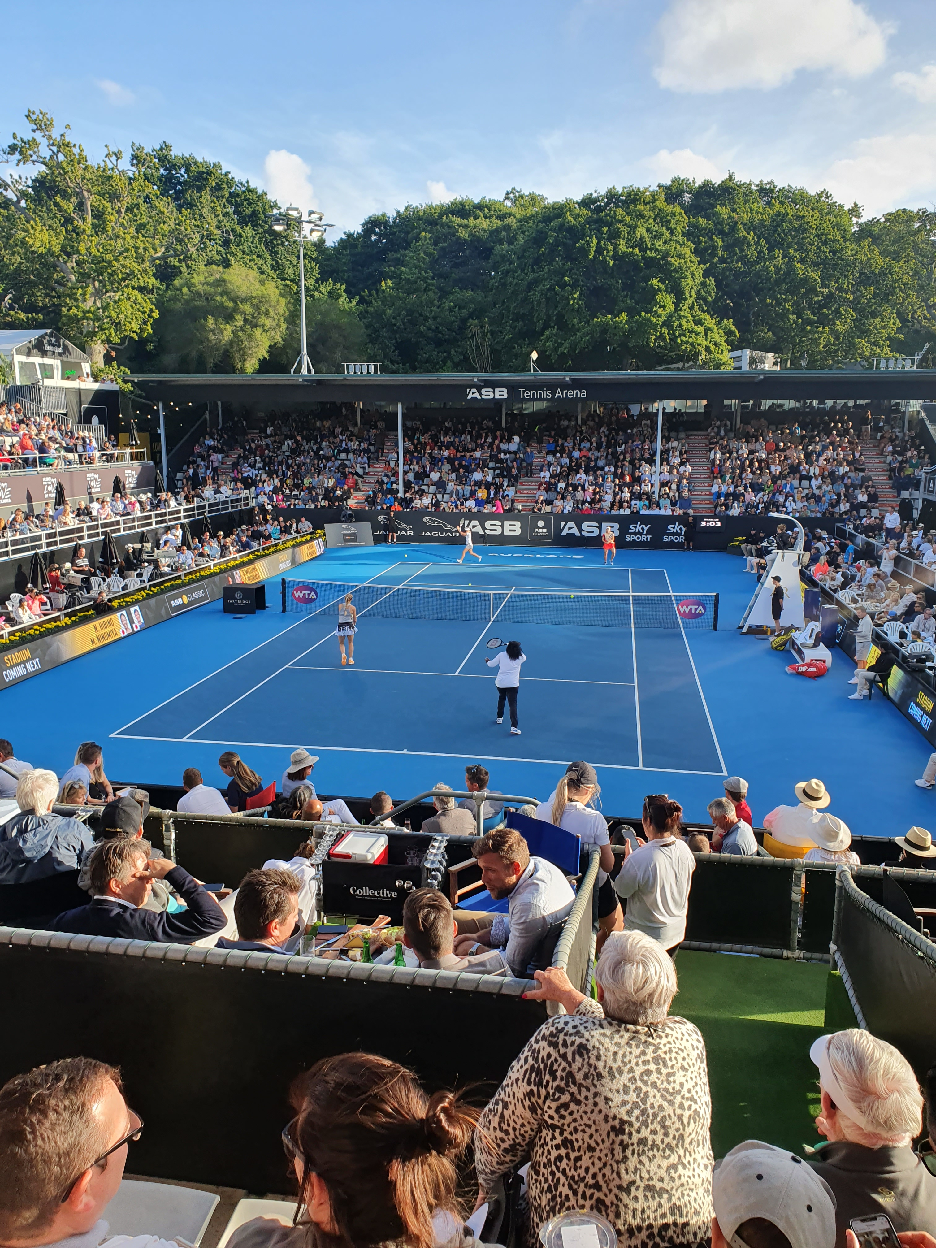 Serena Williams and Caroline Wozniacki in Doubles match at Auckland